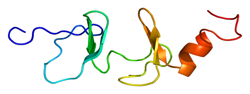 Structure of the FHL2 protein. Based on PyMOL rendering of PDB 1x4k.